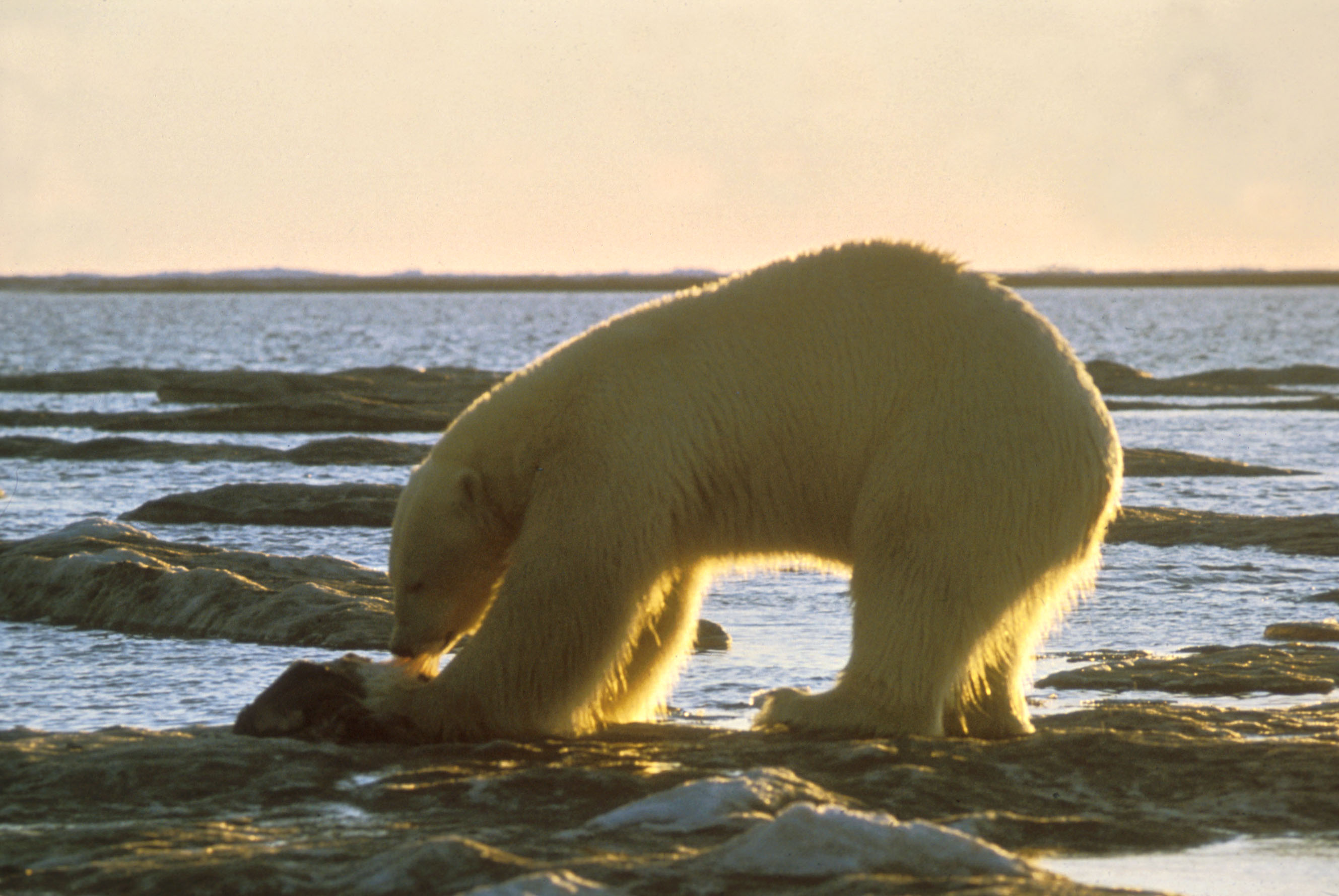 Polar Bear